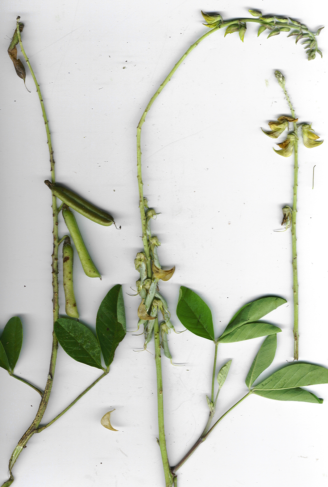 Crotalaria pallida (branch). Location: Maui, Ukumehame